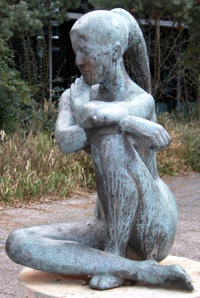 Braunschweig, Germany: Female nude, by Karl Paul Egon Schiffers